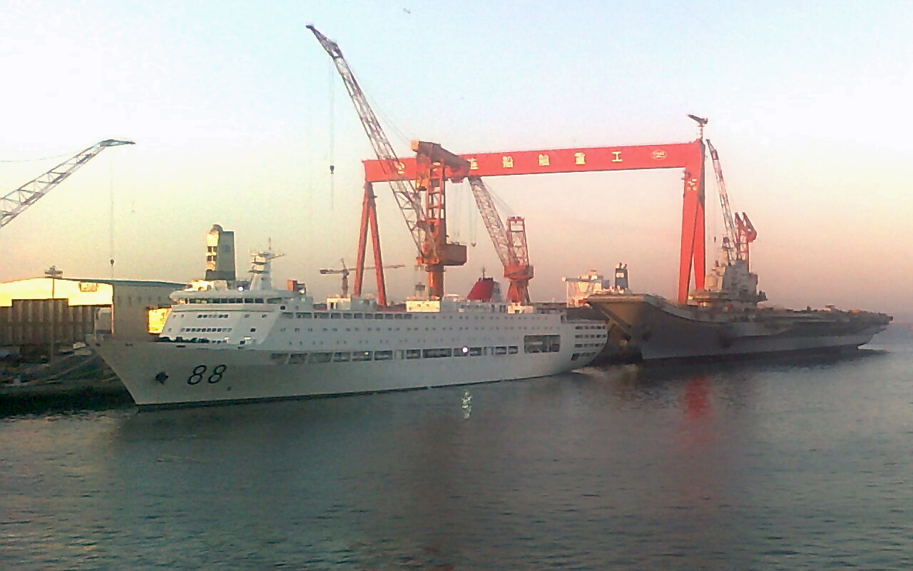 Xuxiake 88 with aircraft carrier Liaoning 16